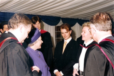 Jannette Frandsen with Queen Elisabeth at Oriel College, Oxford (2001). Talking about the vibration problems of the wobbly Millennium bridge and the Great Belt East Suspension bridge, etc.